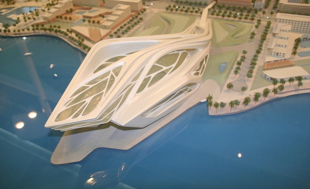 This is a photo showing a model of the Performing Arts Centre on Saadiyat Island in Abu Dhabi, United Arab Emirates on 8 May 2007. The model was at the Cityscape Abu Dhabi 2007.